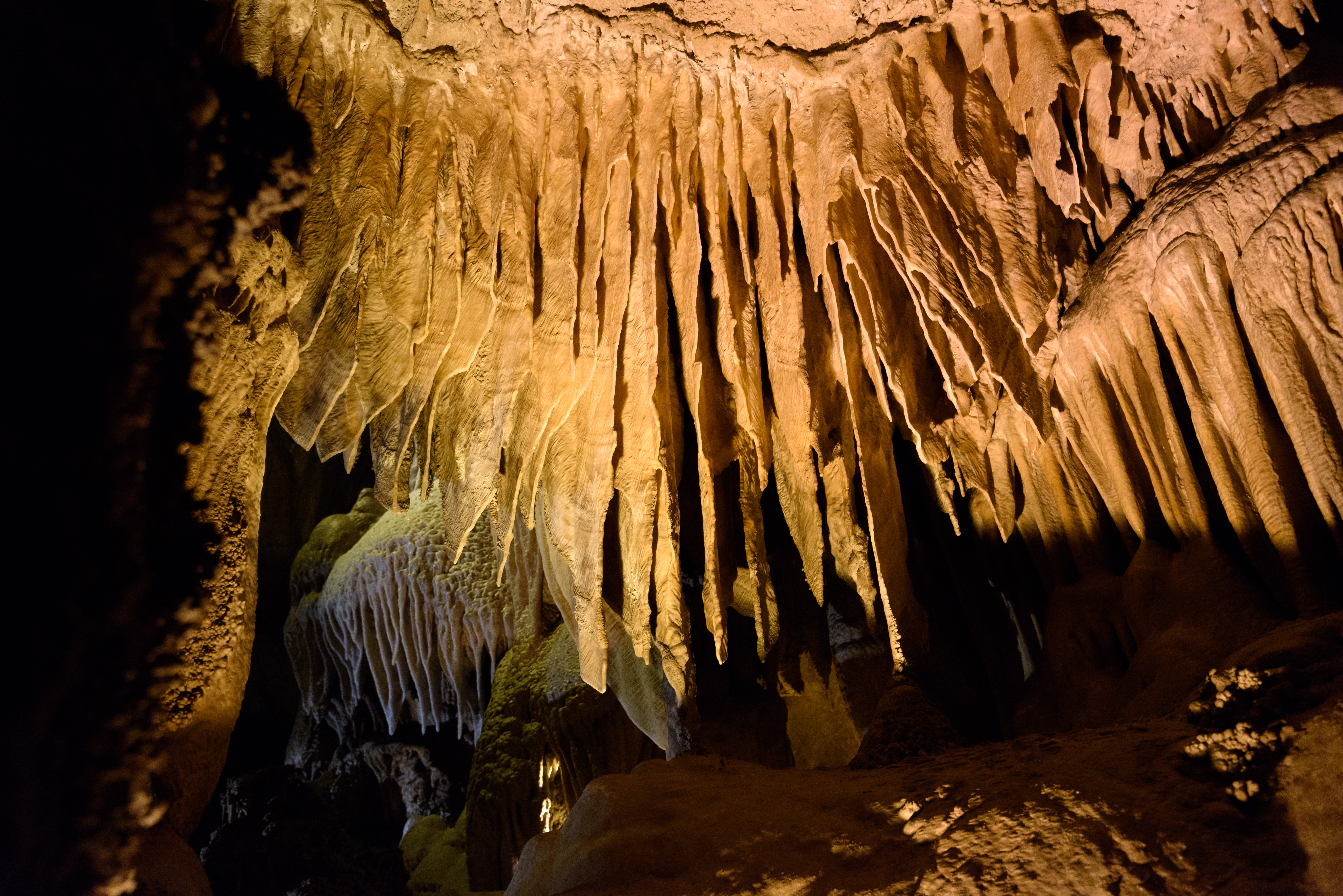 Crystal Cave, Sequoia National Park, California.